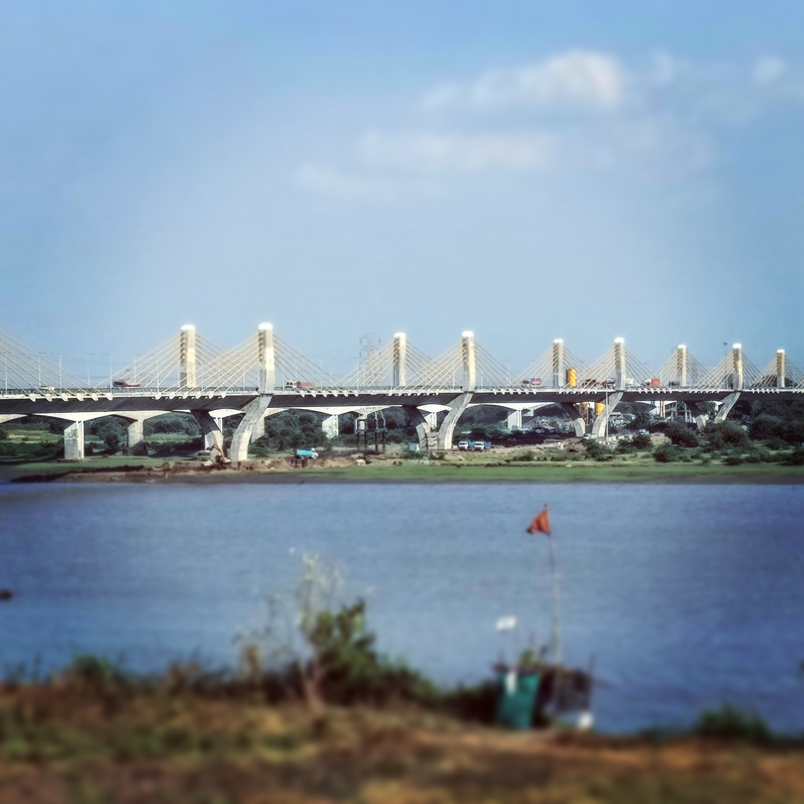 New Cable bridge over Narmada River Bank located at Bharuch, Gujarat.